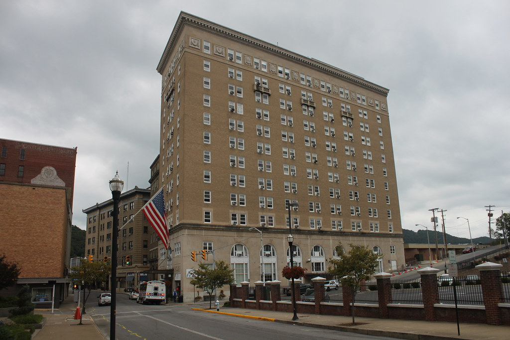 Photo of the West Virginian Hotel in downtown Blufield, West Virginia.